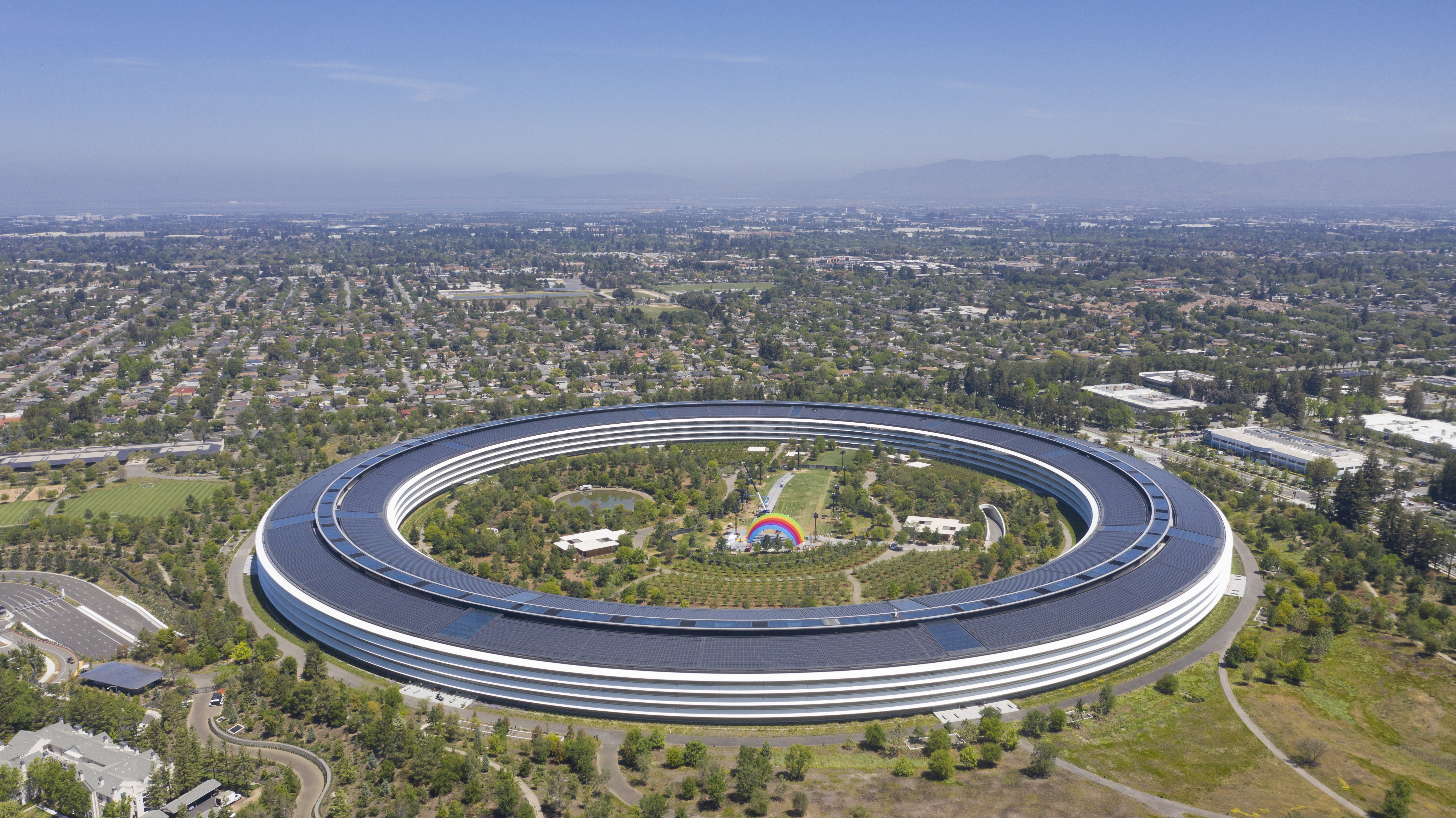 Apple Park aerial view